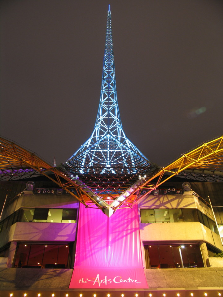 An upward shot of The Arts Centre spire in Southbank, Melbourne.